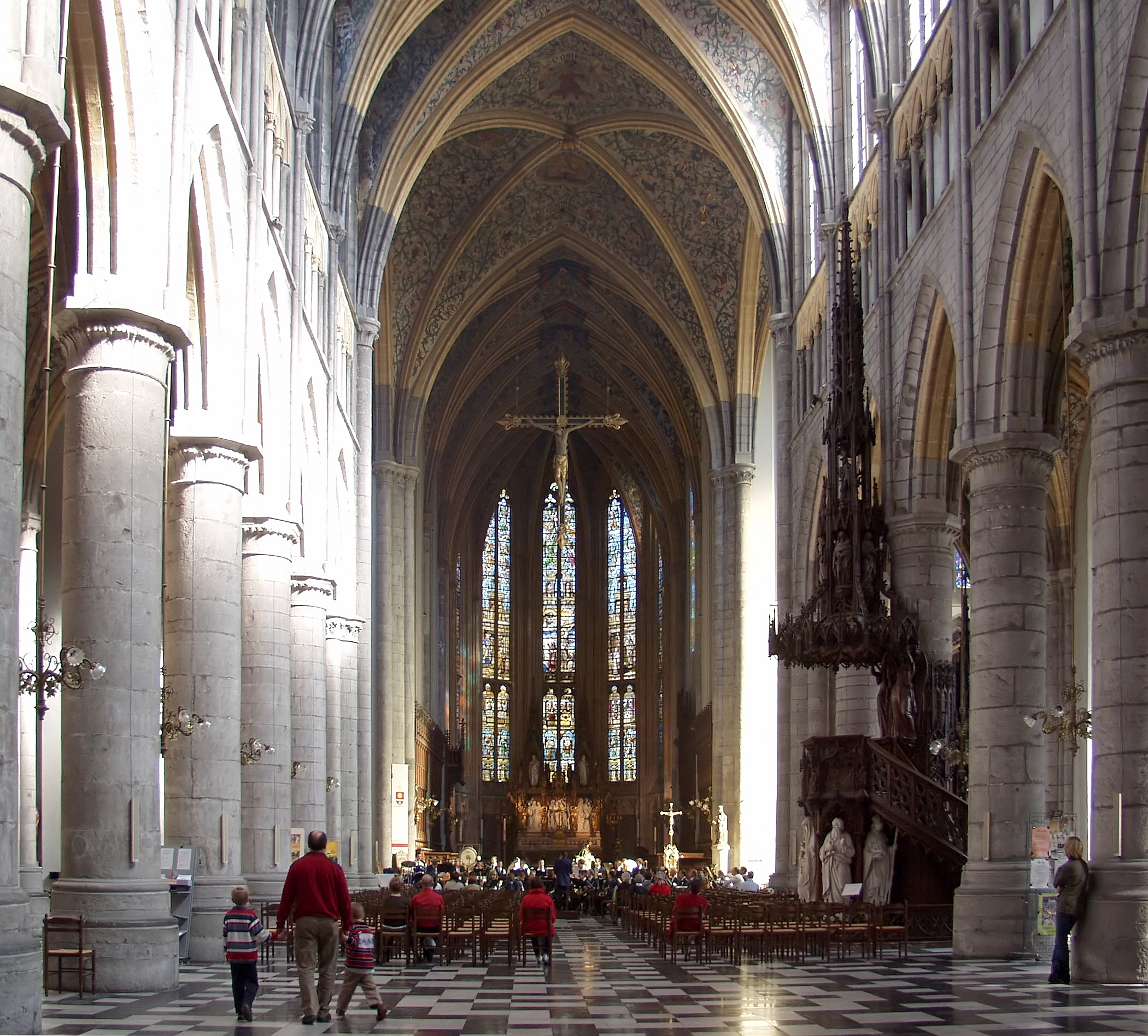 Cathédrale Saint-Paul de Liège, inner view, during a orchestra probe. Liège, Belgium